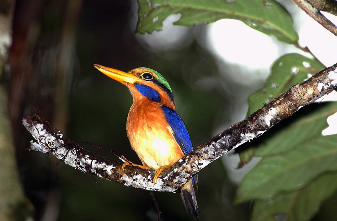 Rufous-collared Kingfisher (Actenoides concretus): Deforestation threatens its survival.